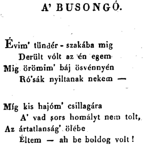 Poem of Mentovich Ferenc